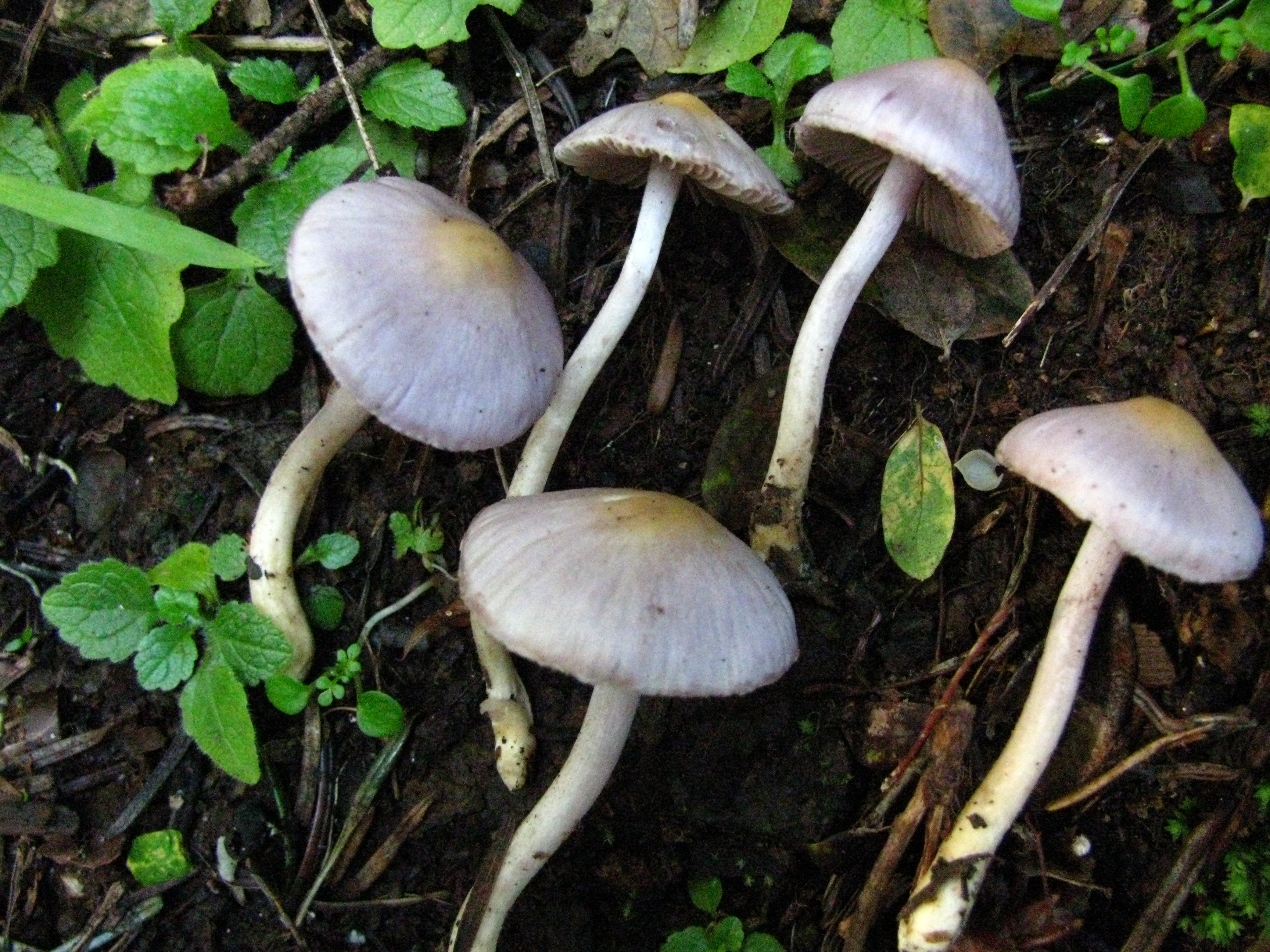 Inocybe geophylla var. lilacina Gillet Image location: Mendocino, California, USA Recognized by sight: found in mixed conifer forest ~3 miles inland For more information about this, see the observation page at Mushroom Observer.